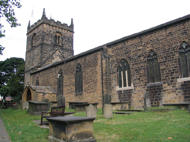 Woodkirk Church, near Leeds, West Yorkshire, England